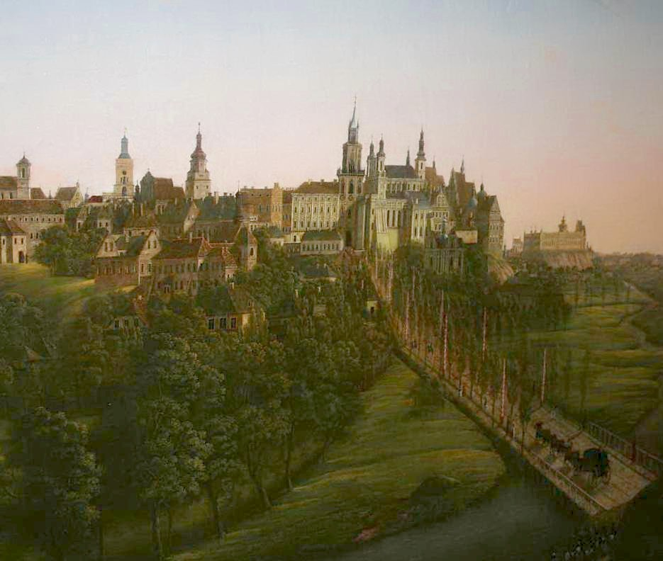 General Zajączek entering Lublin in 1826.